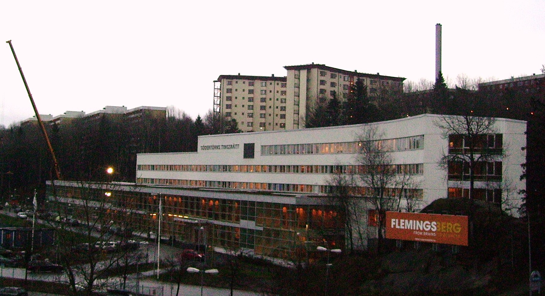 Picture of Södertörns tingsrätt (judicial court) in Stockholms län